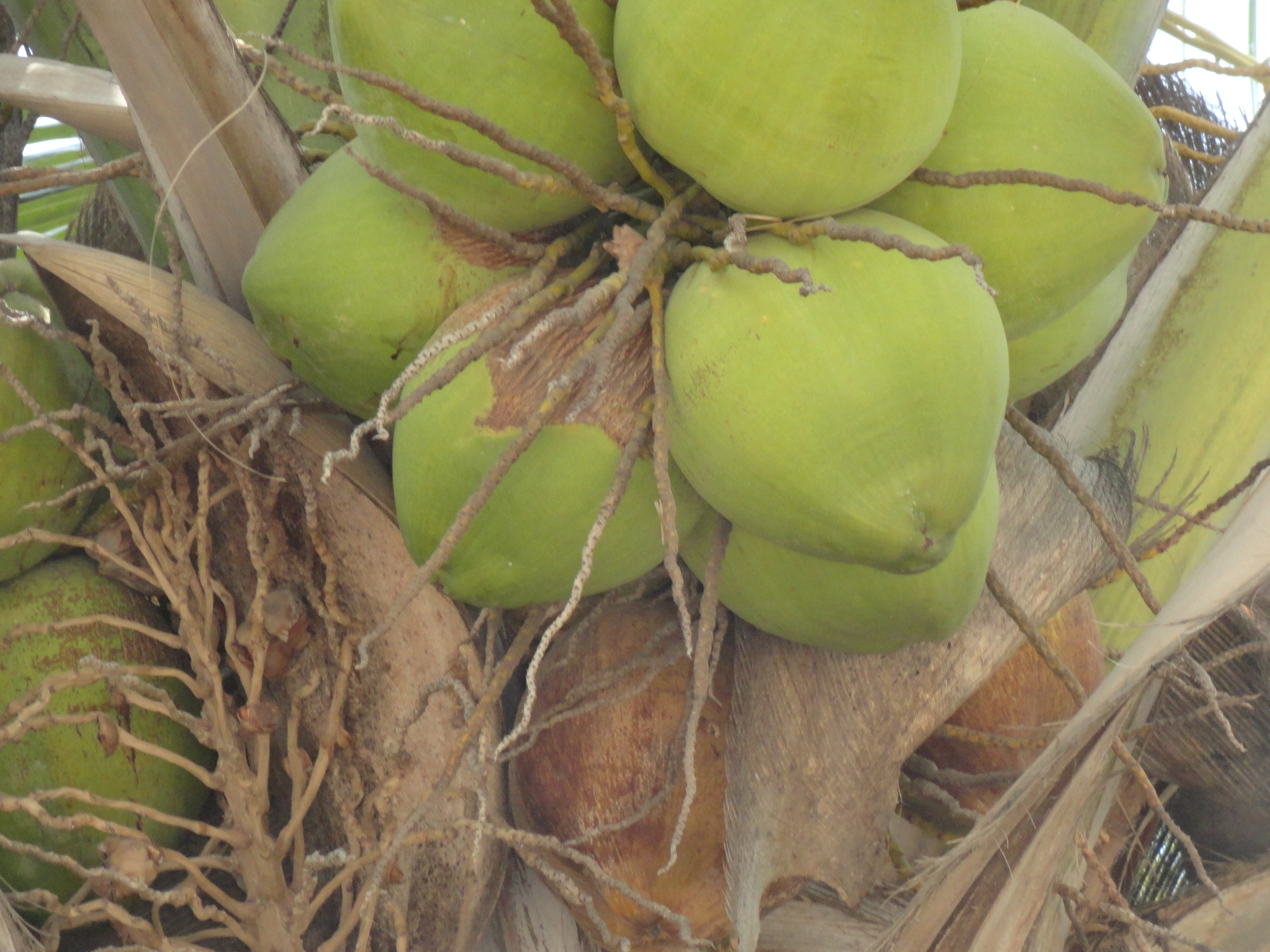 green coconut in the tree. my own work